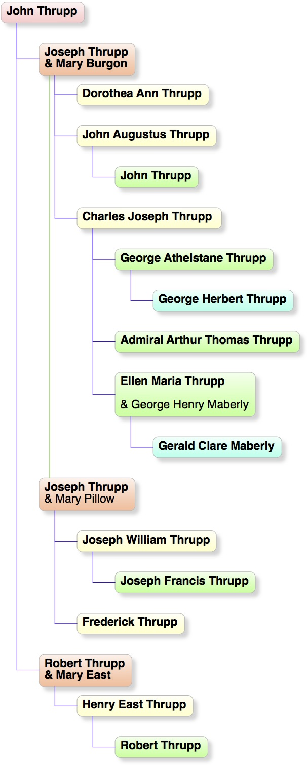 Family tree showing notable members of the Thrupp coach building family